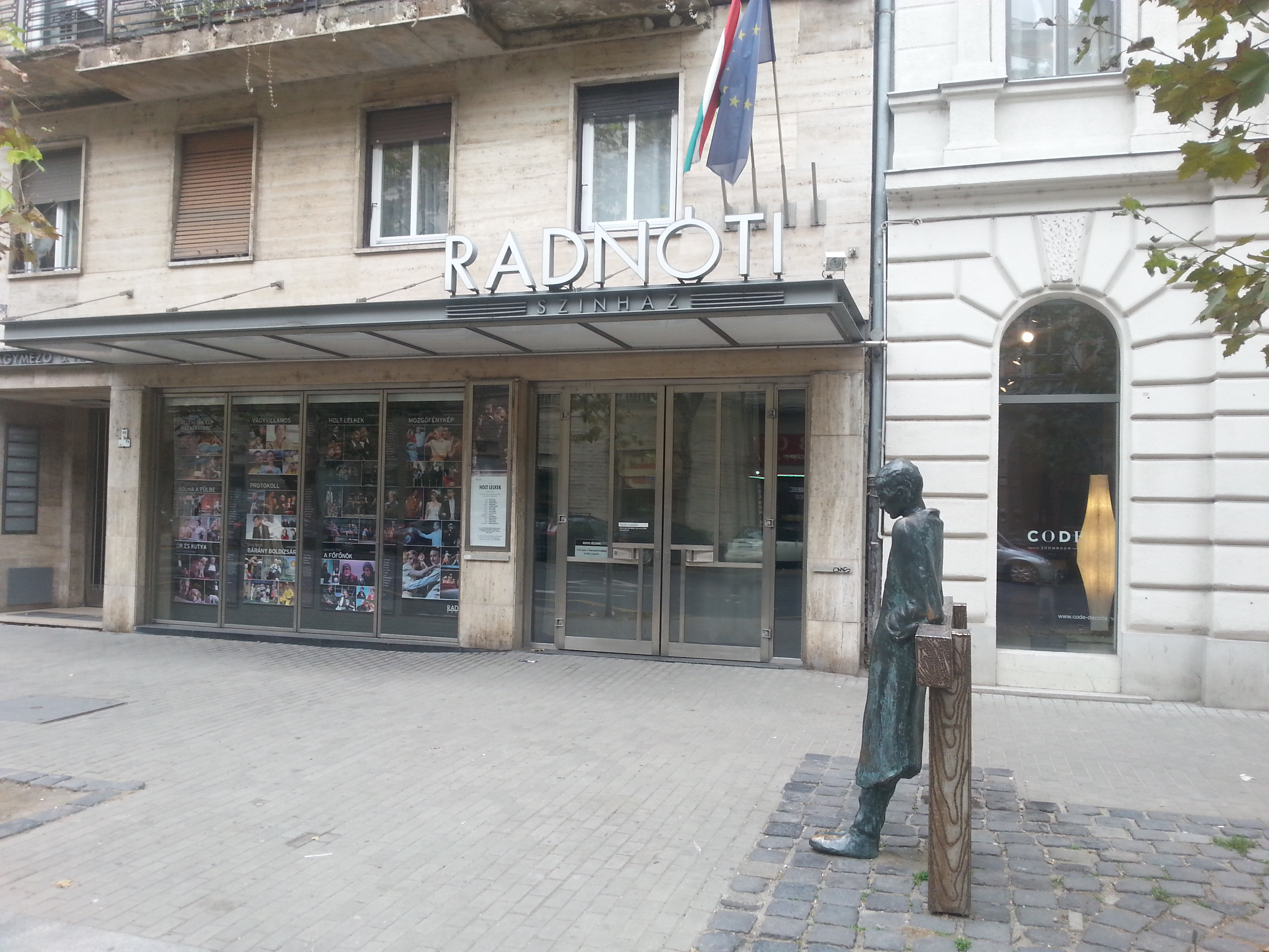 Radnóti Theatre, Budapest